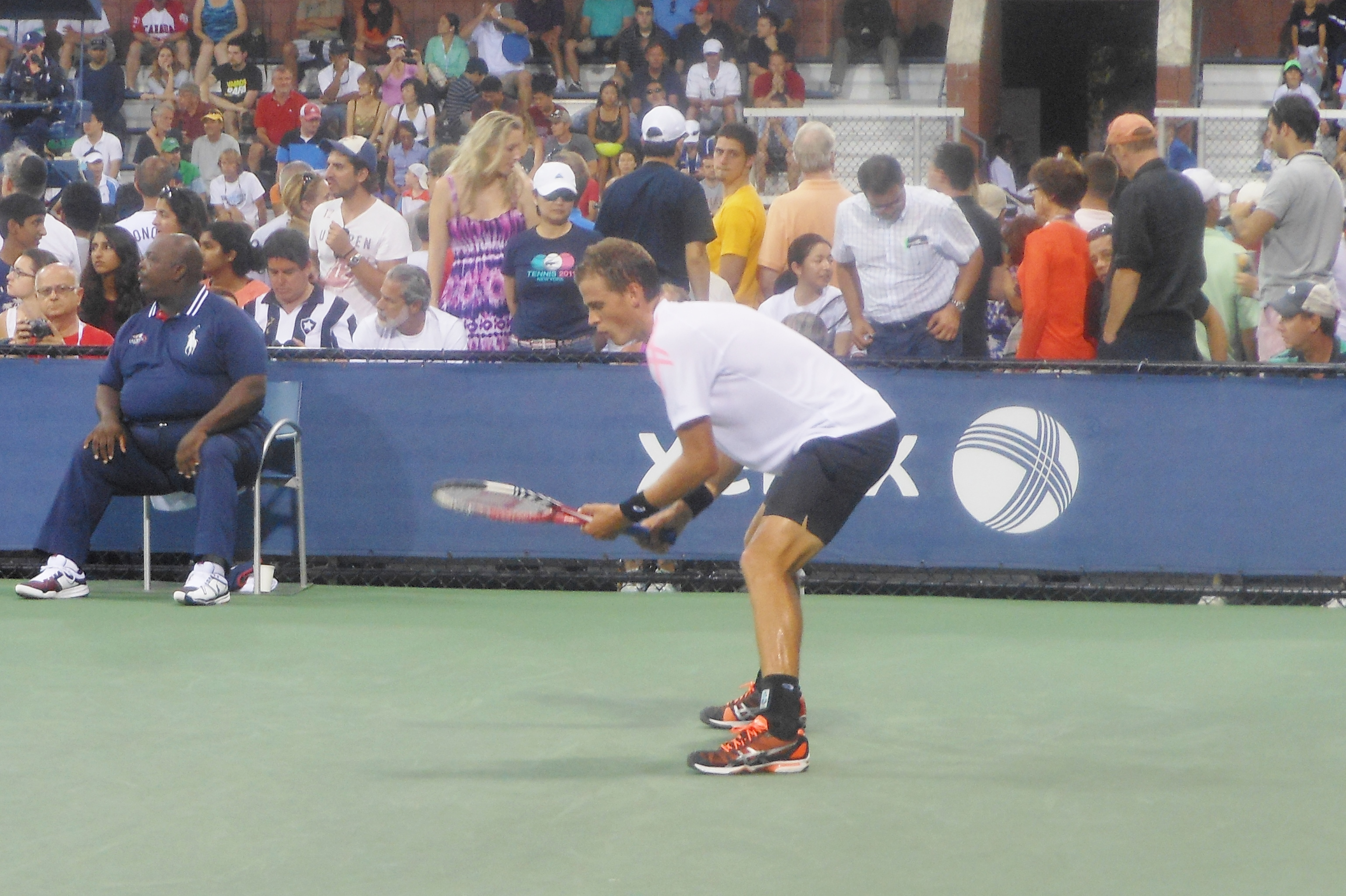 Vasek Pospisil 2013 US Open